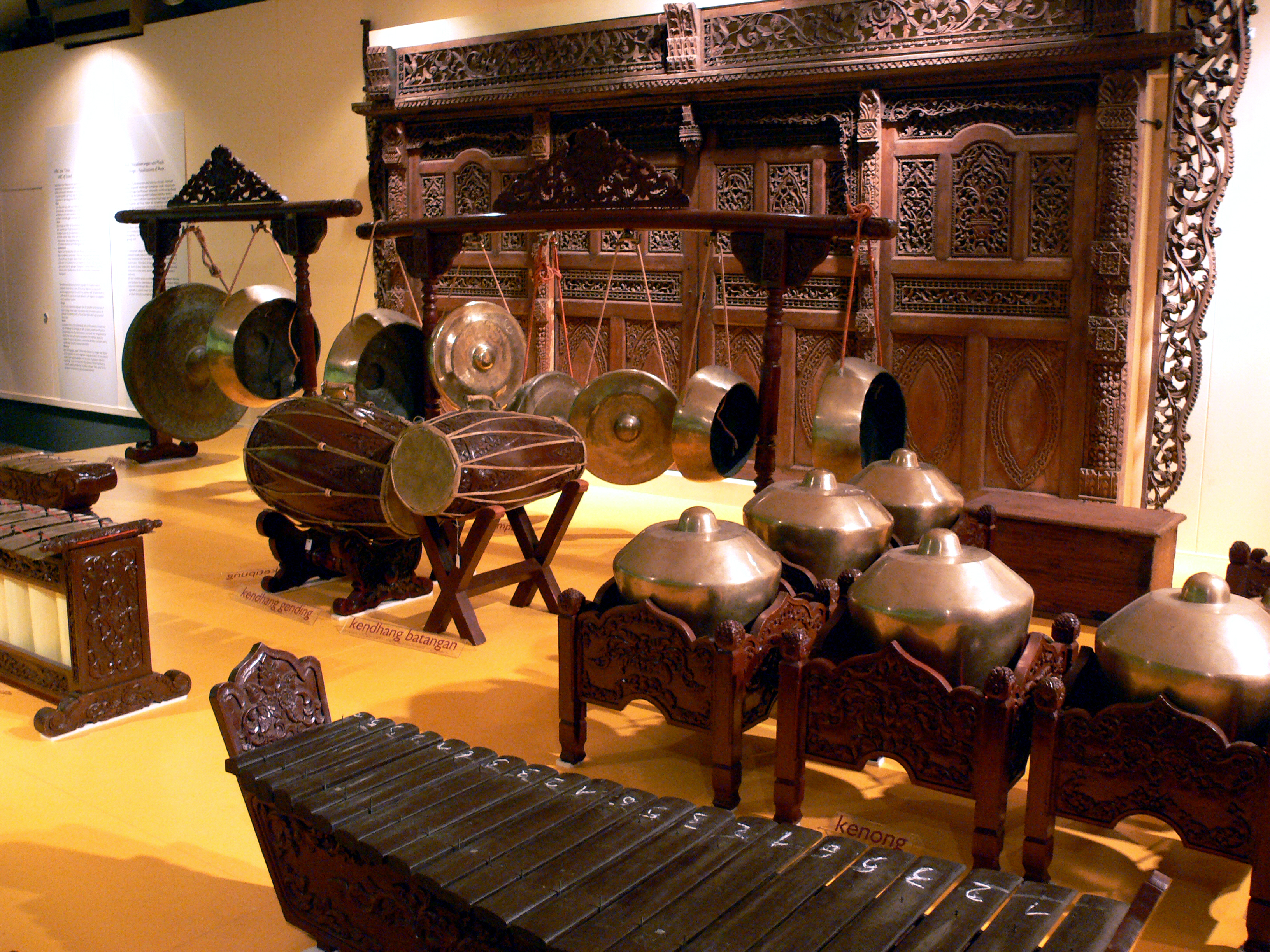 Gamelan orchestra, Department of Music Ethnology, Ethnological Museum, Berlin, Germany